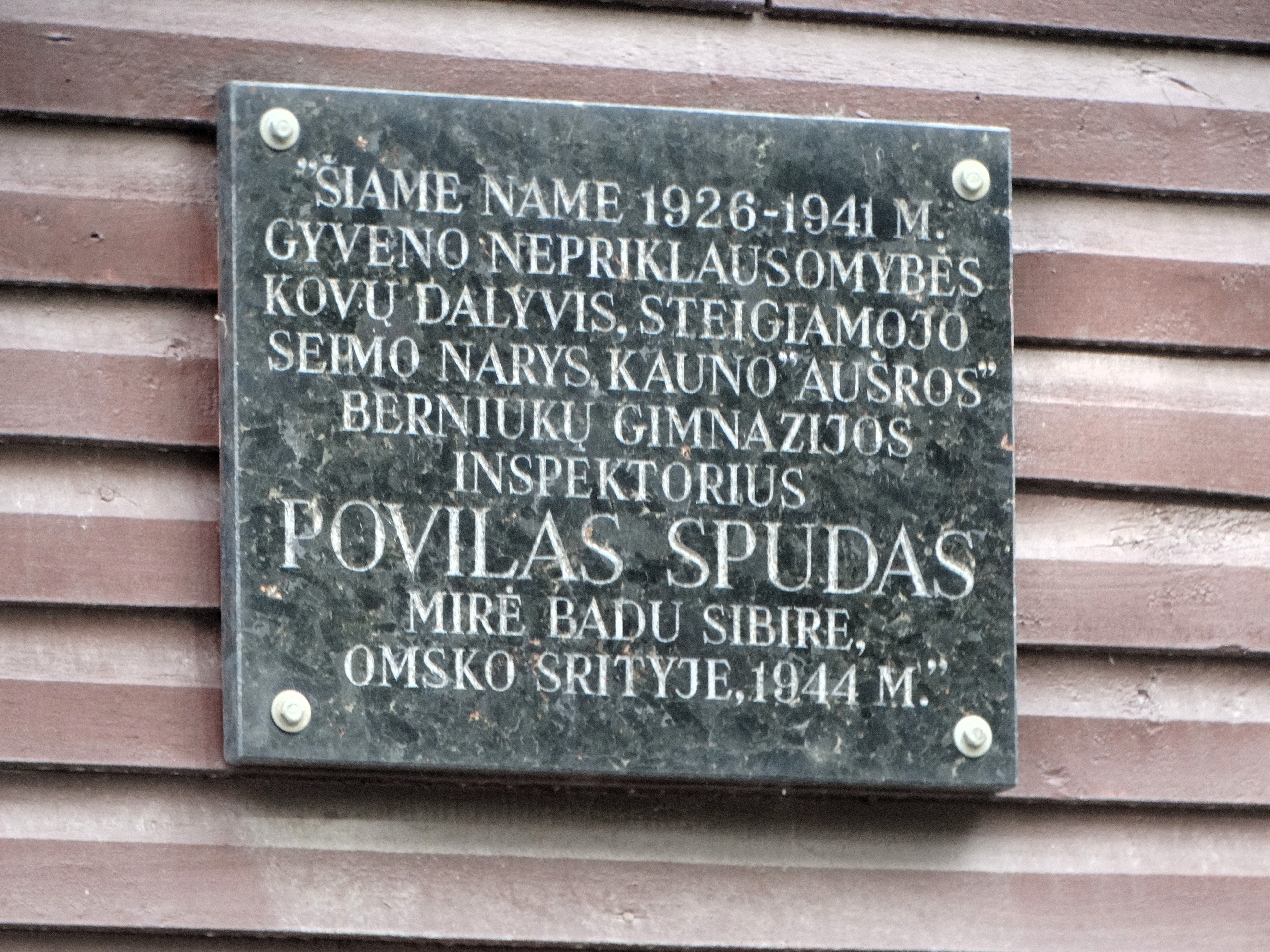 Memorial plaque to Povilas Spudas, Kaunas, Lithuania